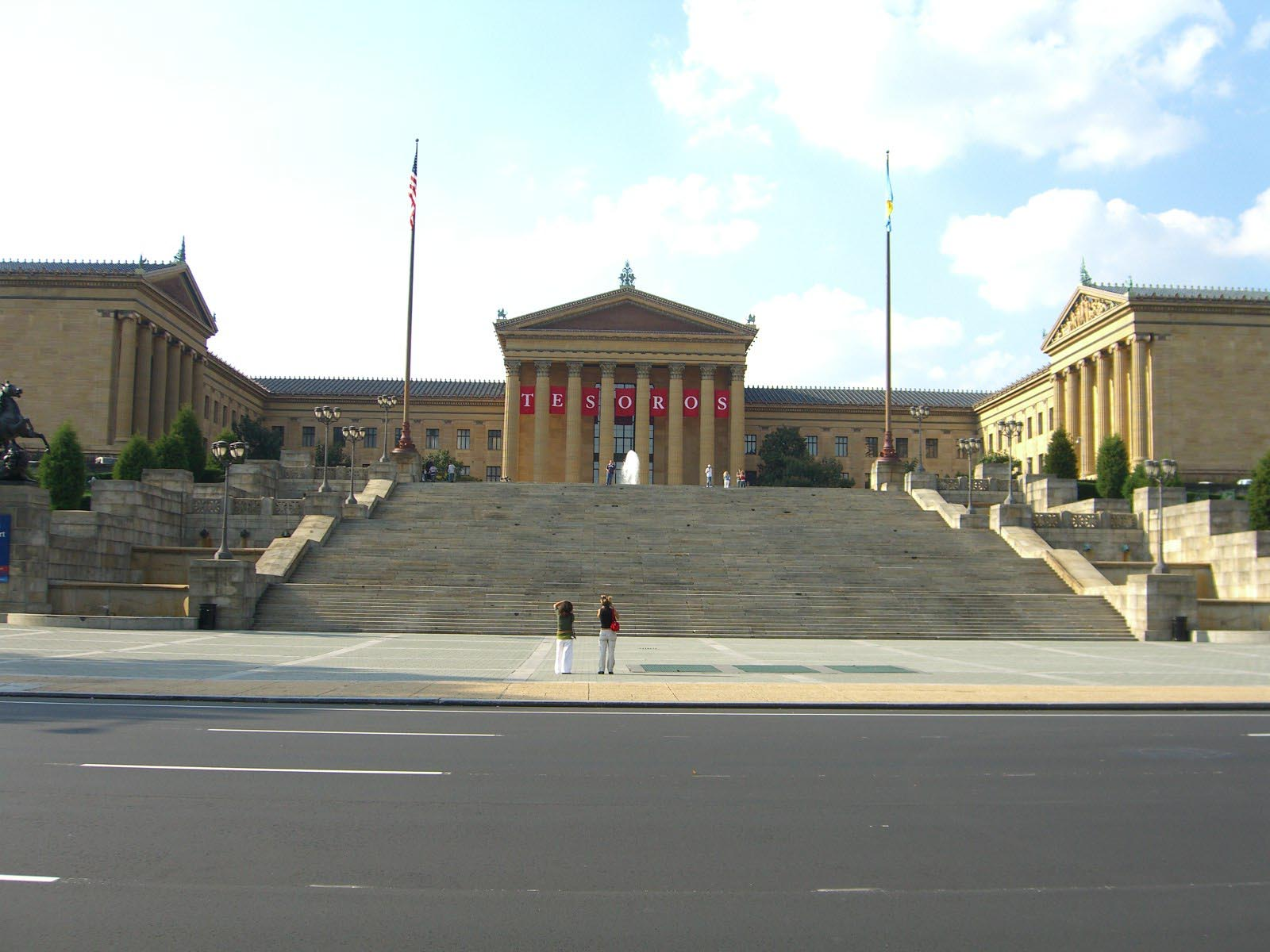 The main building of the Philadelphia Museum of Art, September 26, 2006. Photographed by Luigi Novi. This photo is not in the public domain. It may, however, be used, modified and published for any purpose, free of charge, only if the photographer is properly credited, either by linking the photograph to this page, or with an easily visible credit to the photographer placed near the photo in each instance in which it is used. (See licensing information below.) Publication of this photo without this proper attribution constitutes copyright infringement. If you have any questions, you can contact me on my Wikipedia Talk Page.